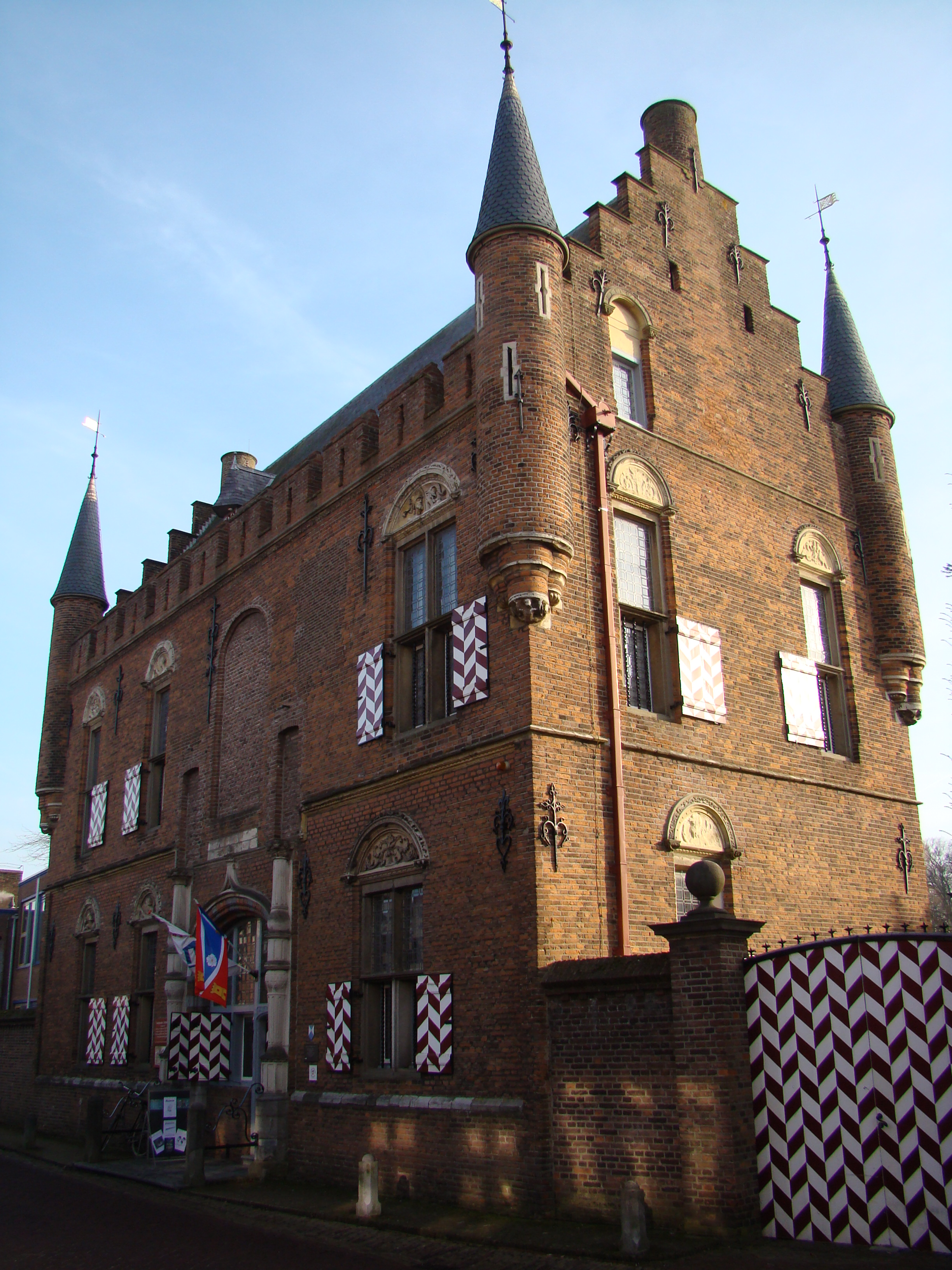 Maarten van Rossum Museum